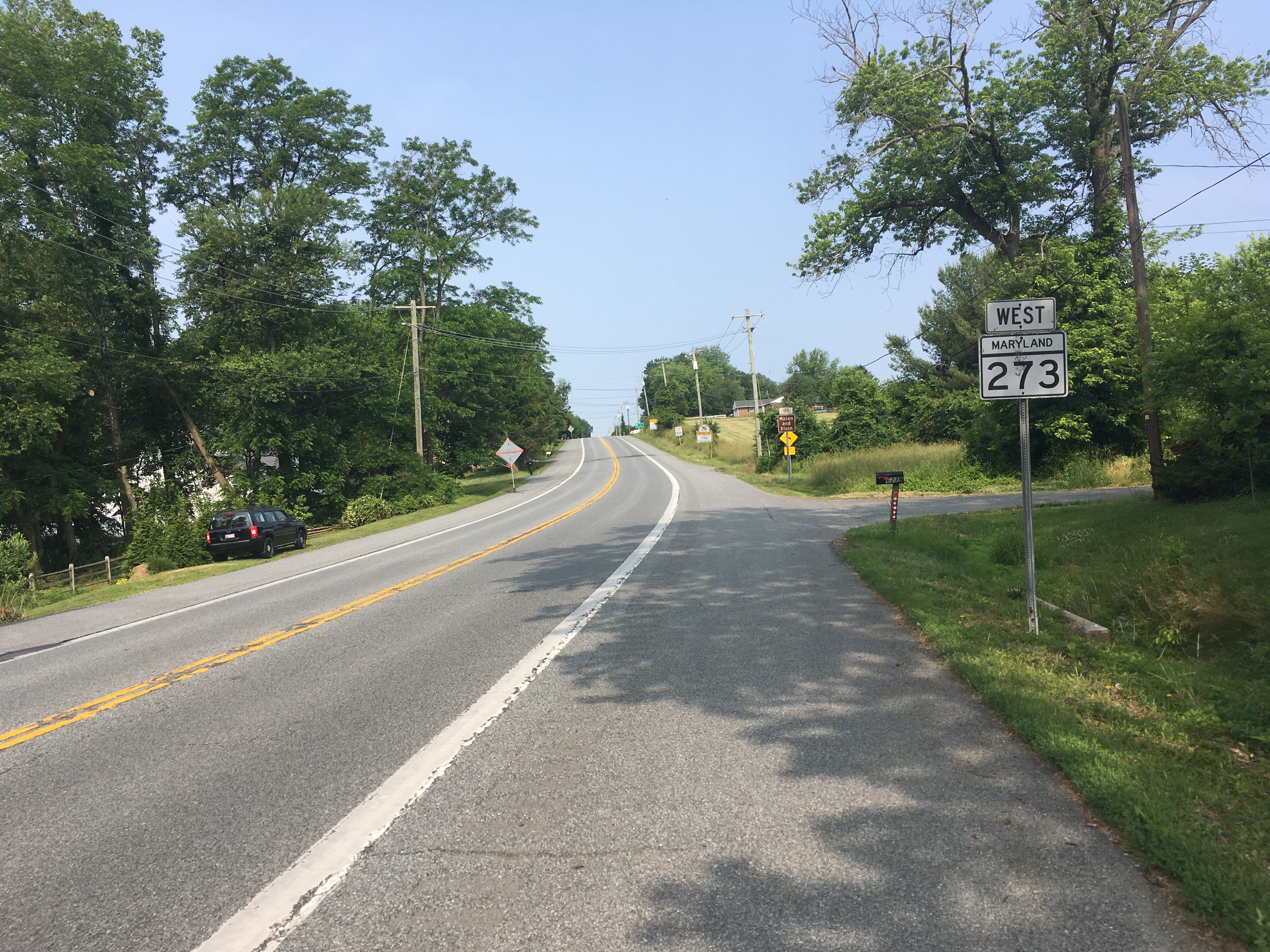 Westbound Maryland Route 273 (Telegraph Road) past its eastern terminus at the Delaware border, where it connects to Delaware Route 273 (Nottingham Road), in Cecil County, Maryland